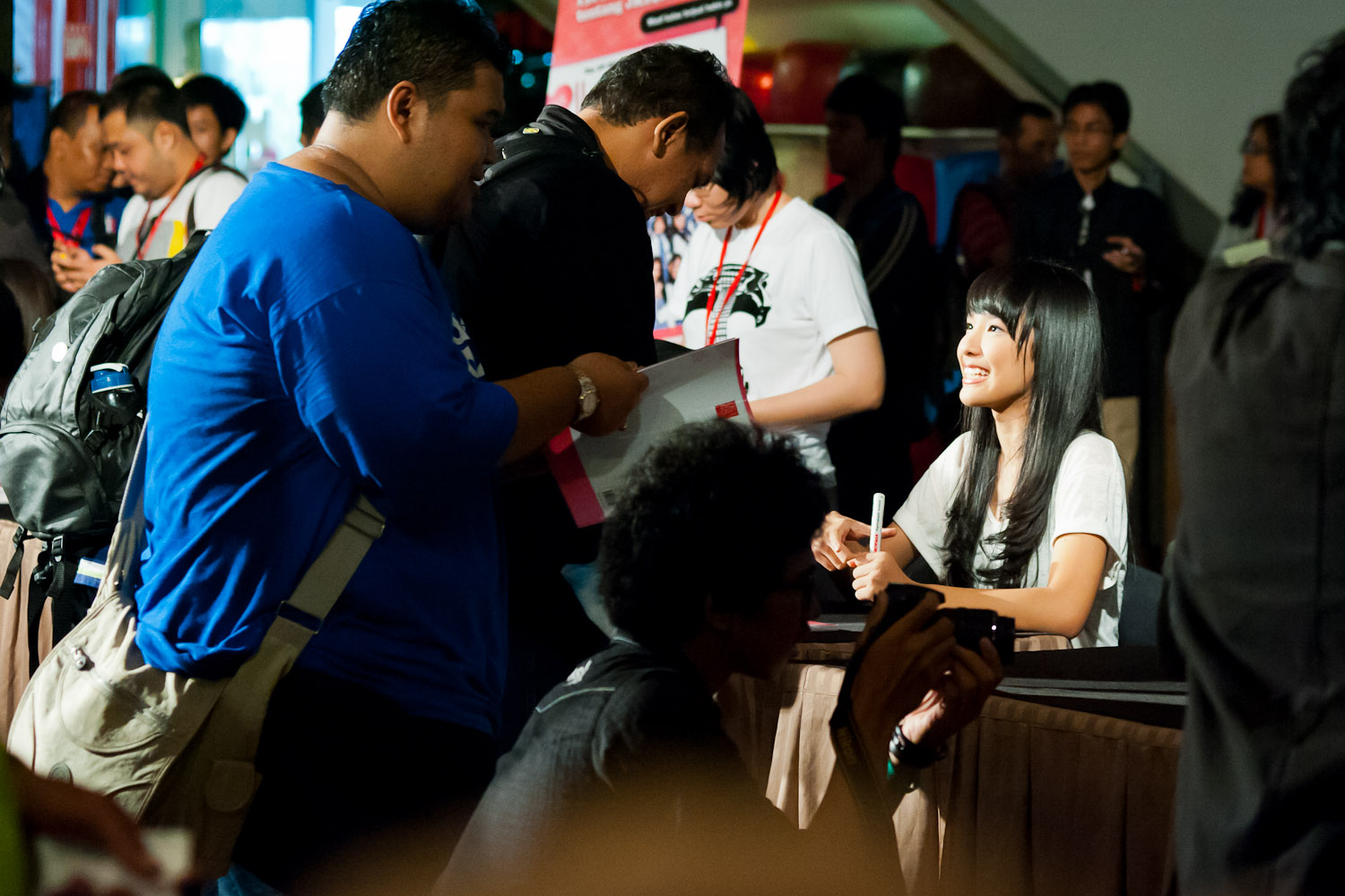 First generation JKT48 member Beby Chaesara Anadila greets fans at an autograph event following the publication of Love JKT48: The 1st Official Guide Book.